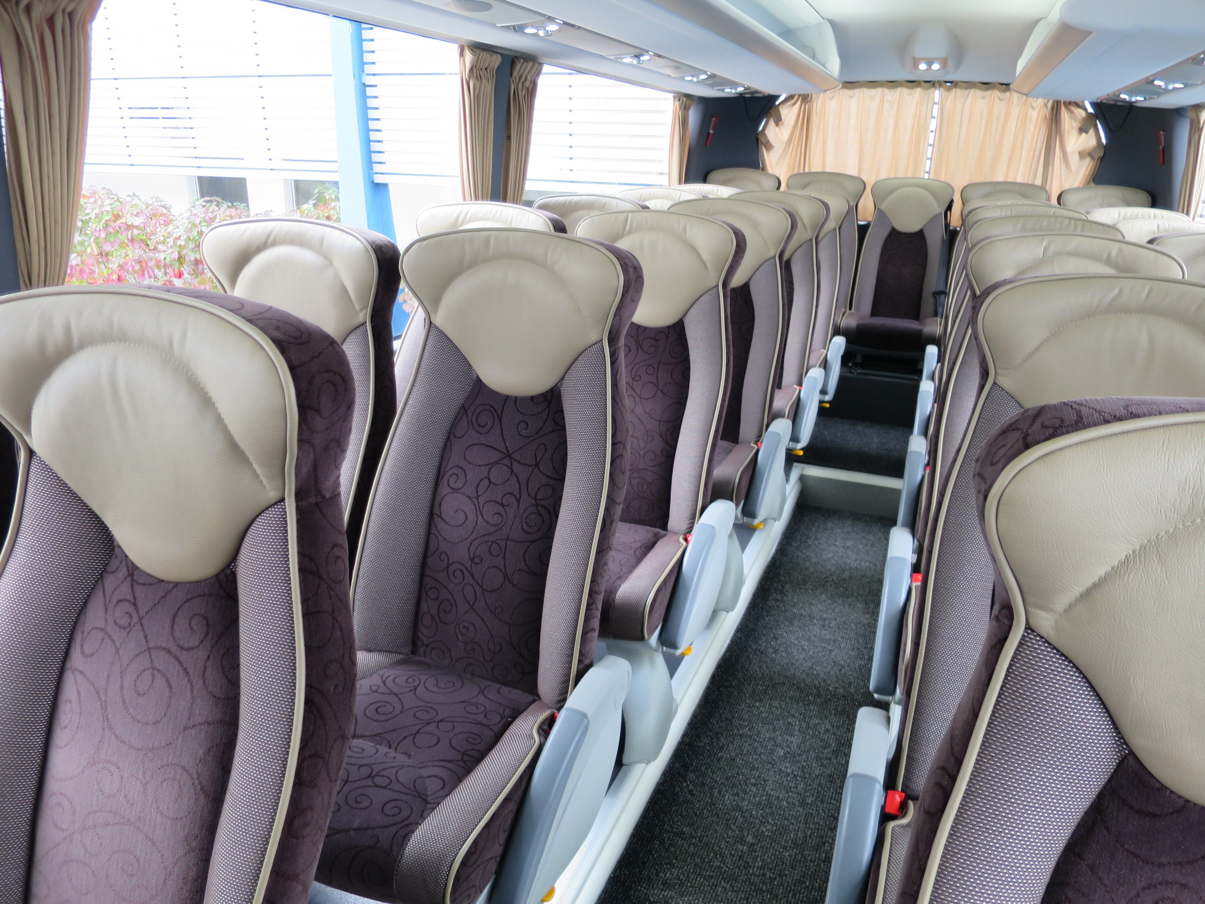 The making of this document was supported by Wikimedia Polska Association, within Wikigrant no. WG 2016-45. Irizar i6